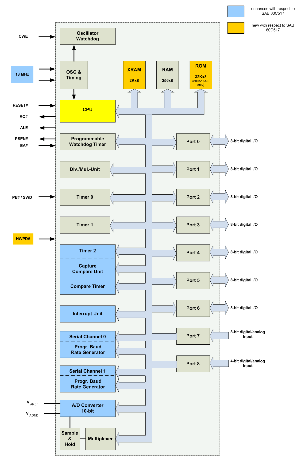 80C517(A) microarchitecture